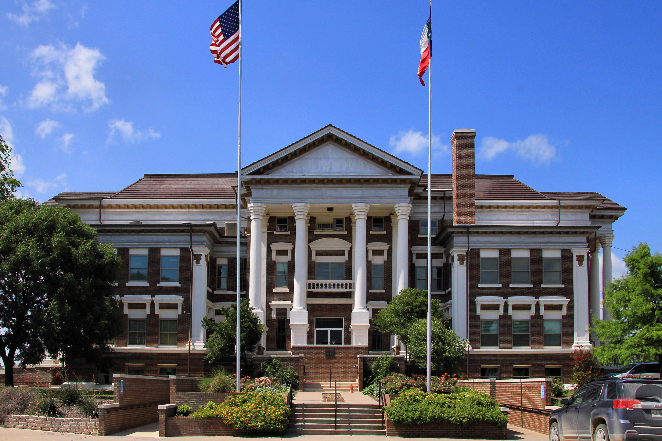 The Montague County Courthouse in Montague, Texas, United States. The courthouse was designated a Recorded Texas Historic Landmark in 2013.